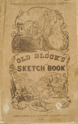 [DELANO, Alonzo (1802?-1874)]. Old Block’s Sketch-Book; or, Tales of California Life. Illustrated with Numerous Elegant Designs, by Nahl, the Cruikshank of California. Sacramento: James Anthony & Co., 1856. Cover by Charles Nahl